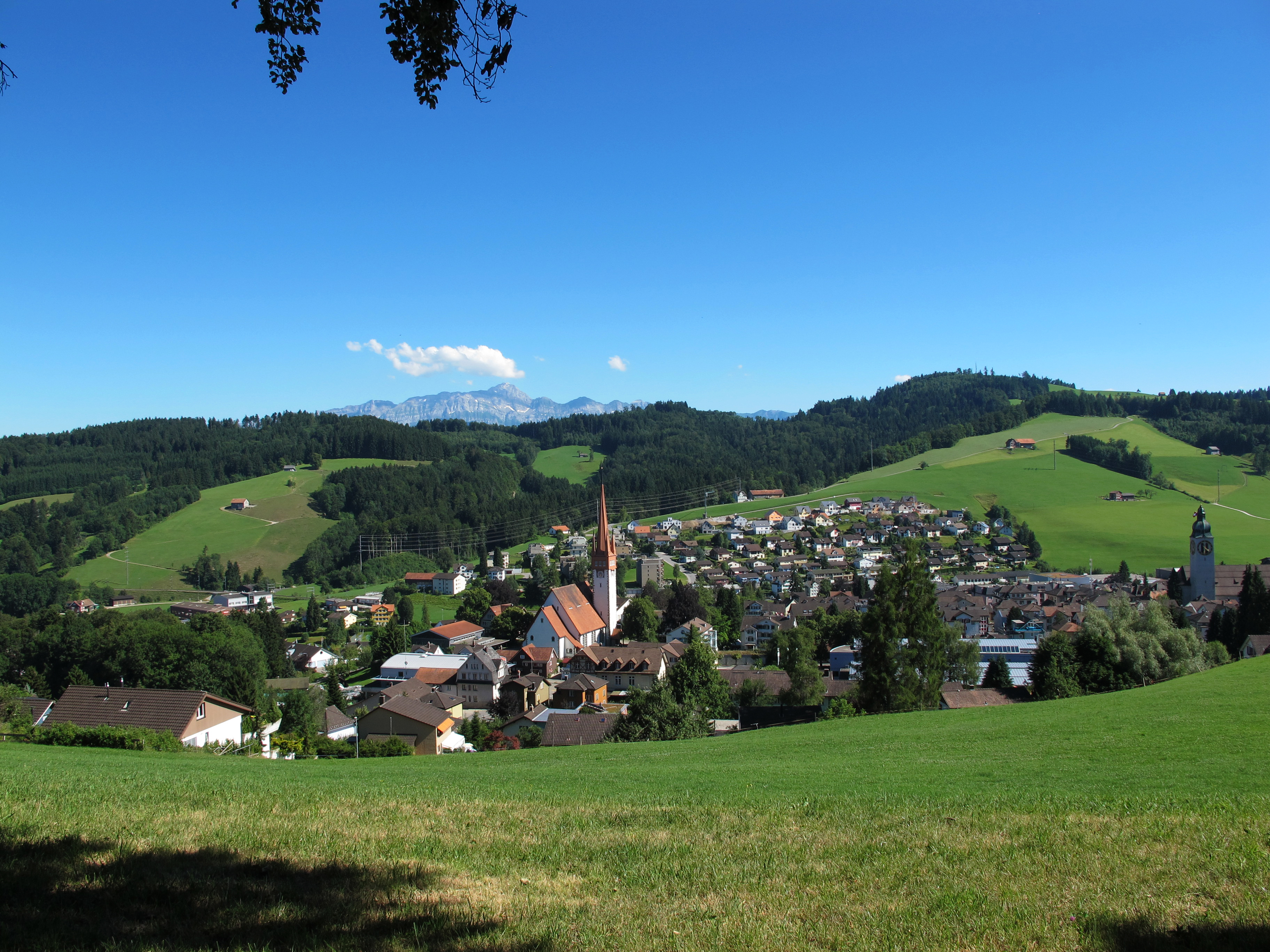 Degersheim SG